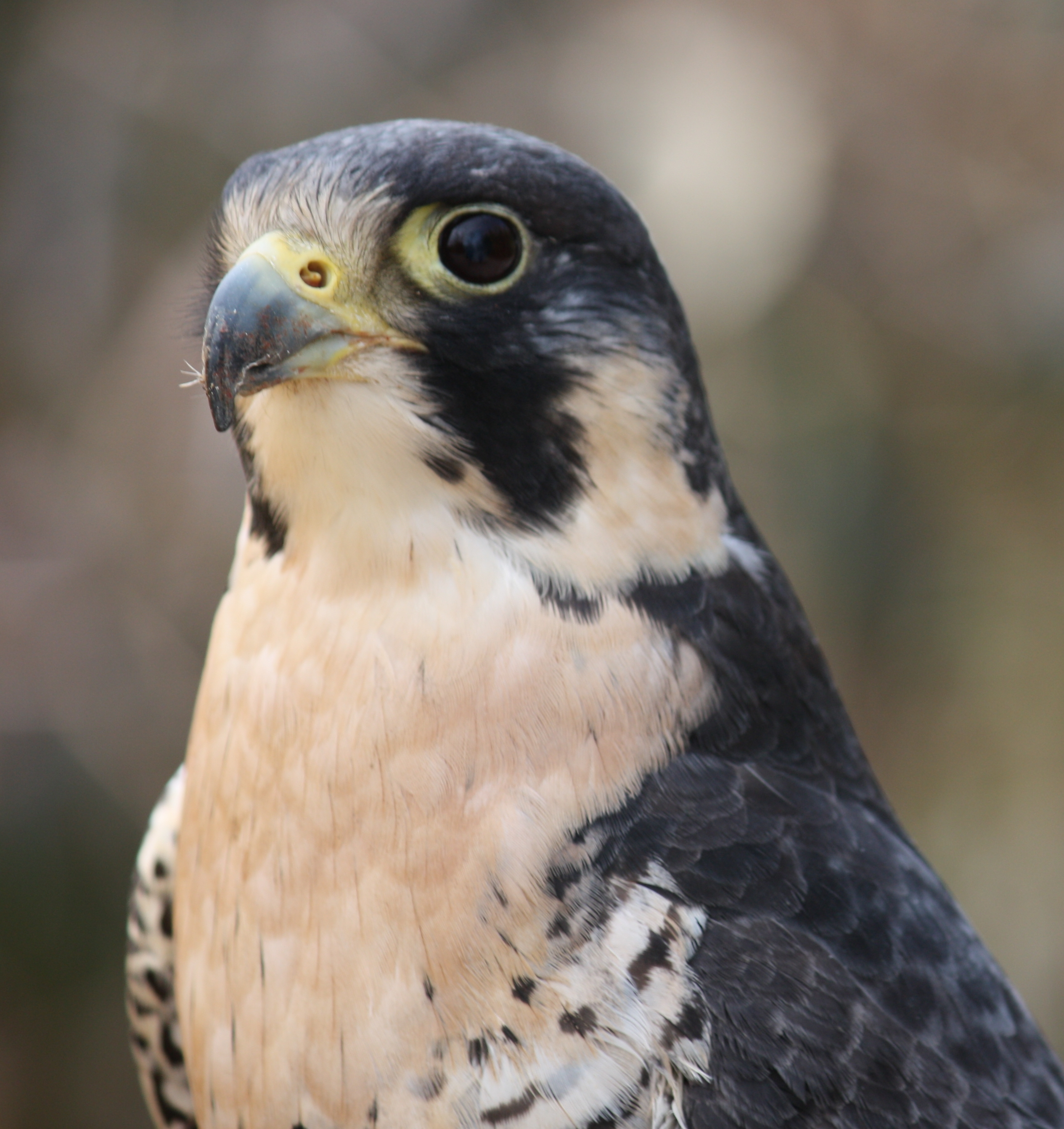 Peregrine Falcon at the Louisville Zoo